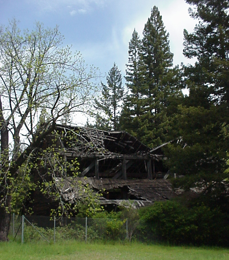 Former Caspar Lumber Company structure at Camp 20 adjacent to California highway 20 in Mendocino County.